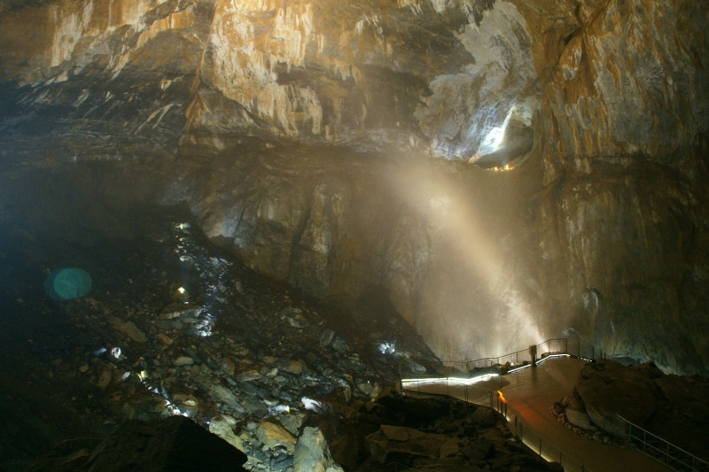 Platform overlooking La Verna cave room